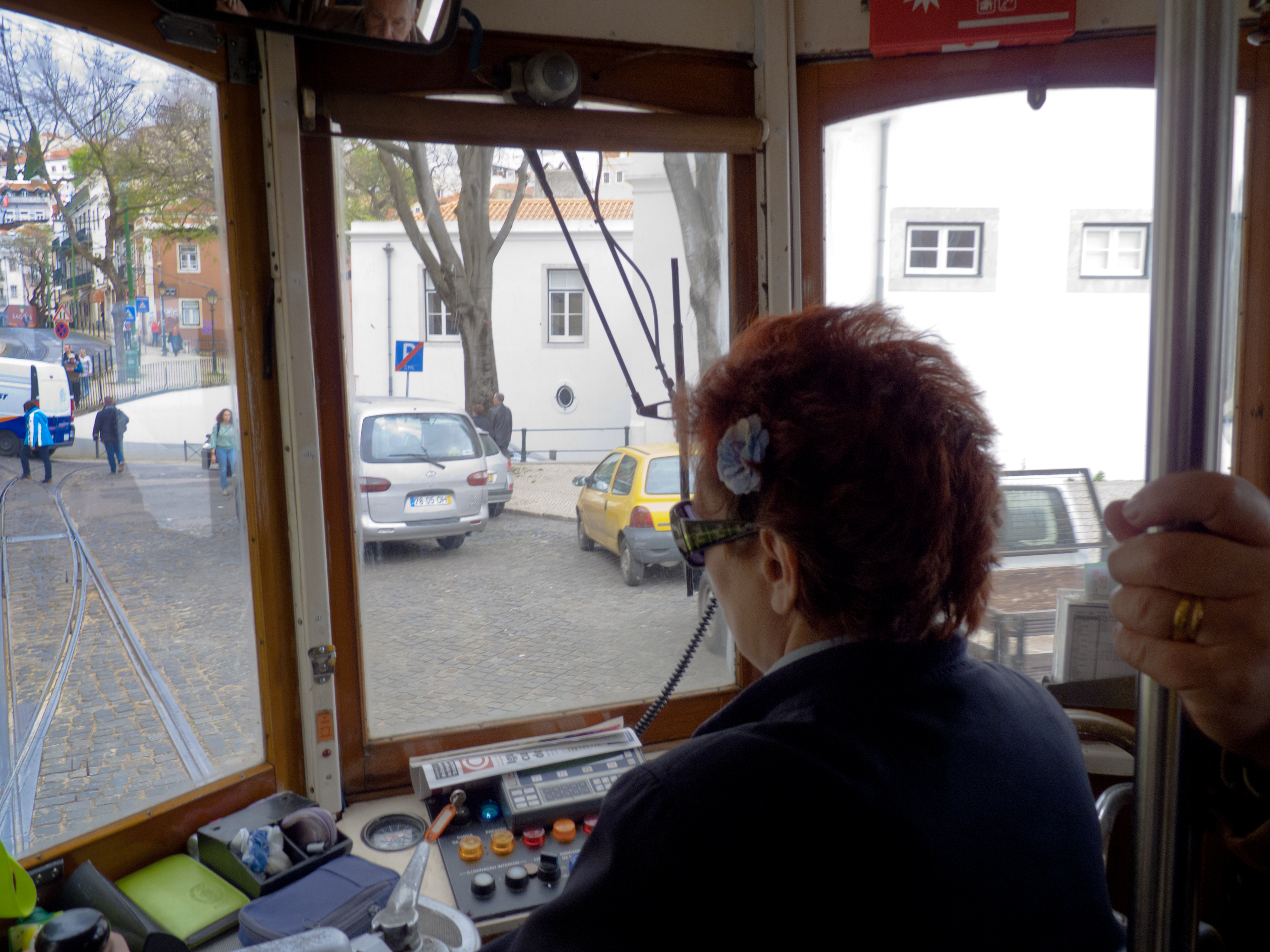 Tram Driver with a Flower in Her Hair: A blue plastic bloom in the red-dyed barnet.